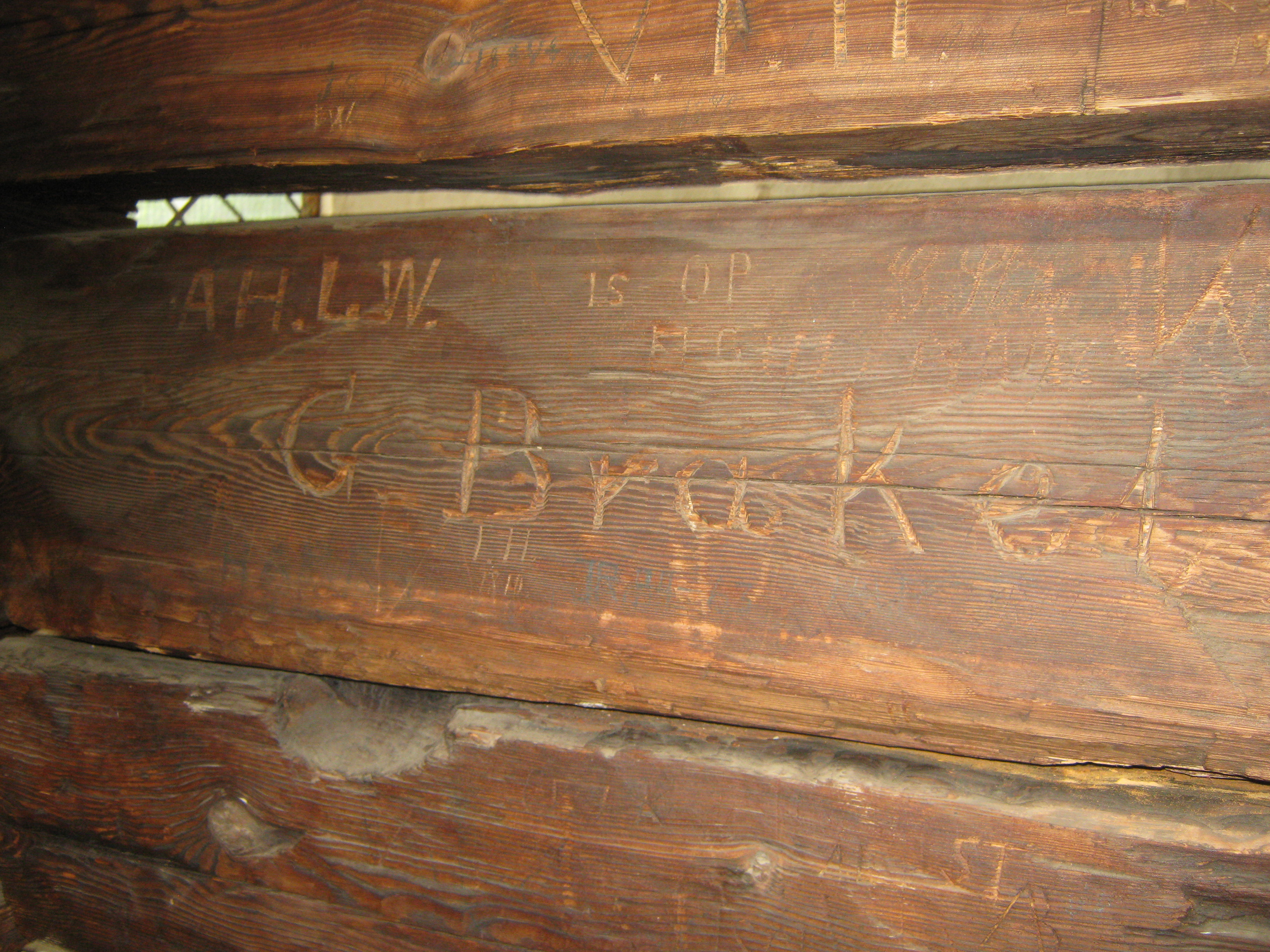 St. Henry's Chapel, Kokemäki, Finland.